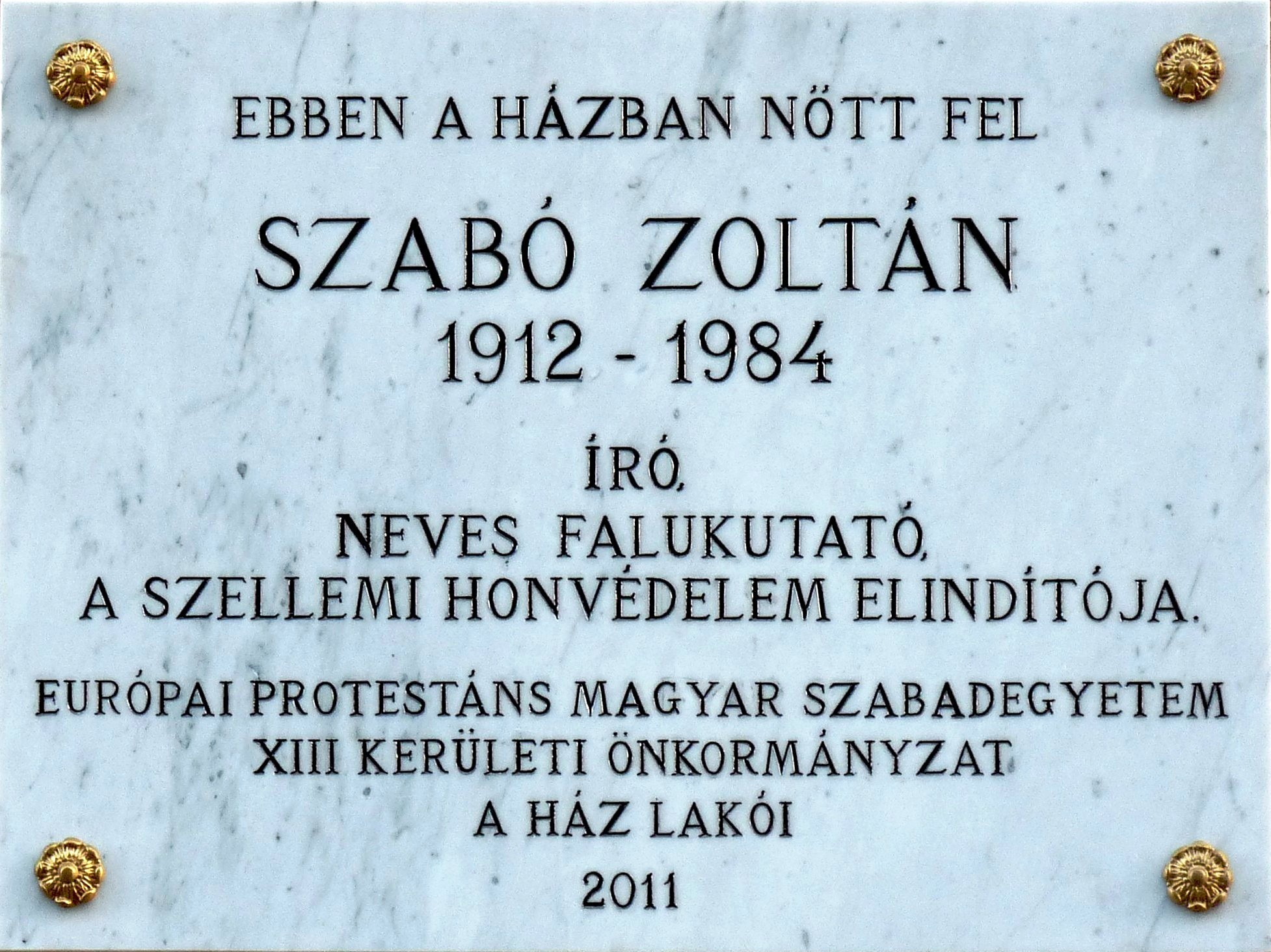 Commemorative plaque to Mr.Zoltán Szabó (1912-1984) Hungarian writer and sociographer on the wall of the building where he lived as a child. It was unveiled on December 14, 2011. (Budapest, District XIII, Visegrádi Street Nr 43-45).